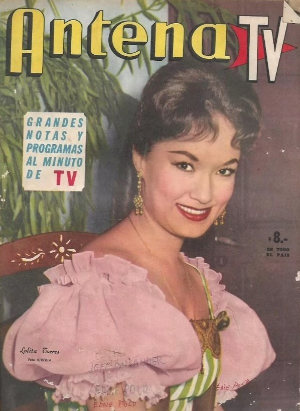 Lolita Torres on Antena TV cover, June 1961